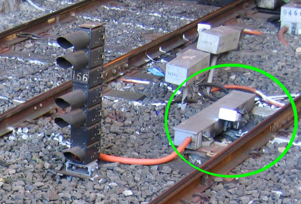 Train Stop and associated signal at Flinders Street Station on the electrified network - Melbourne, Australia